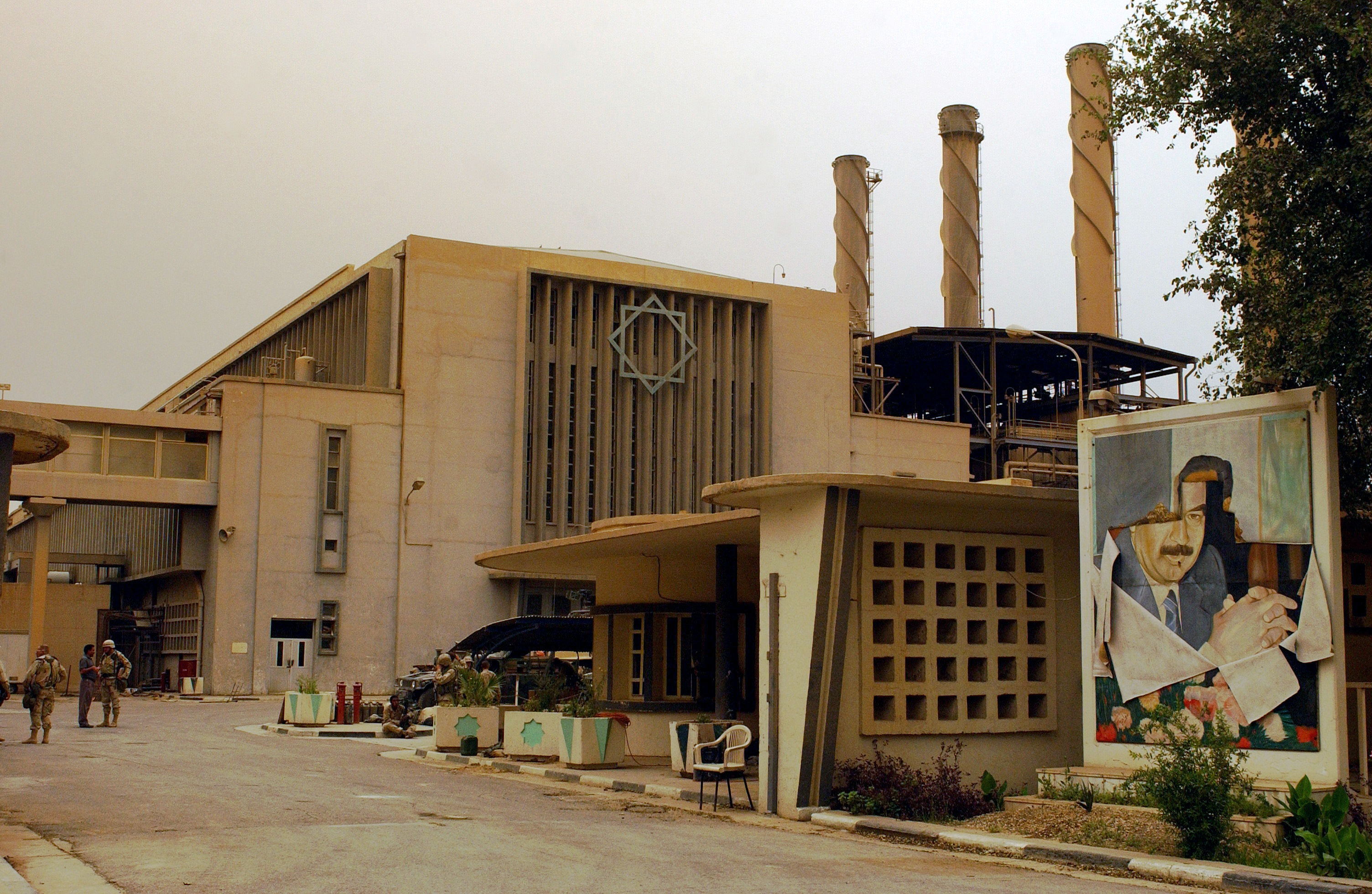 Power plant in Baghdad after Operation Iraqi Freedom.